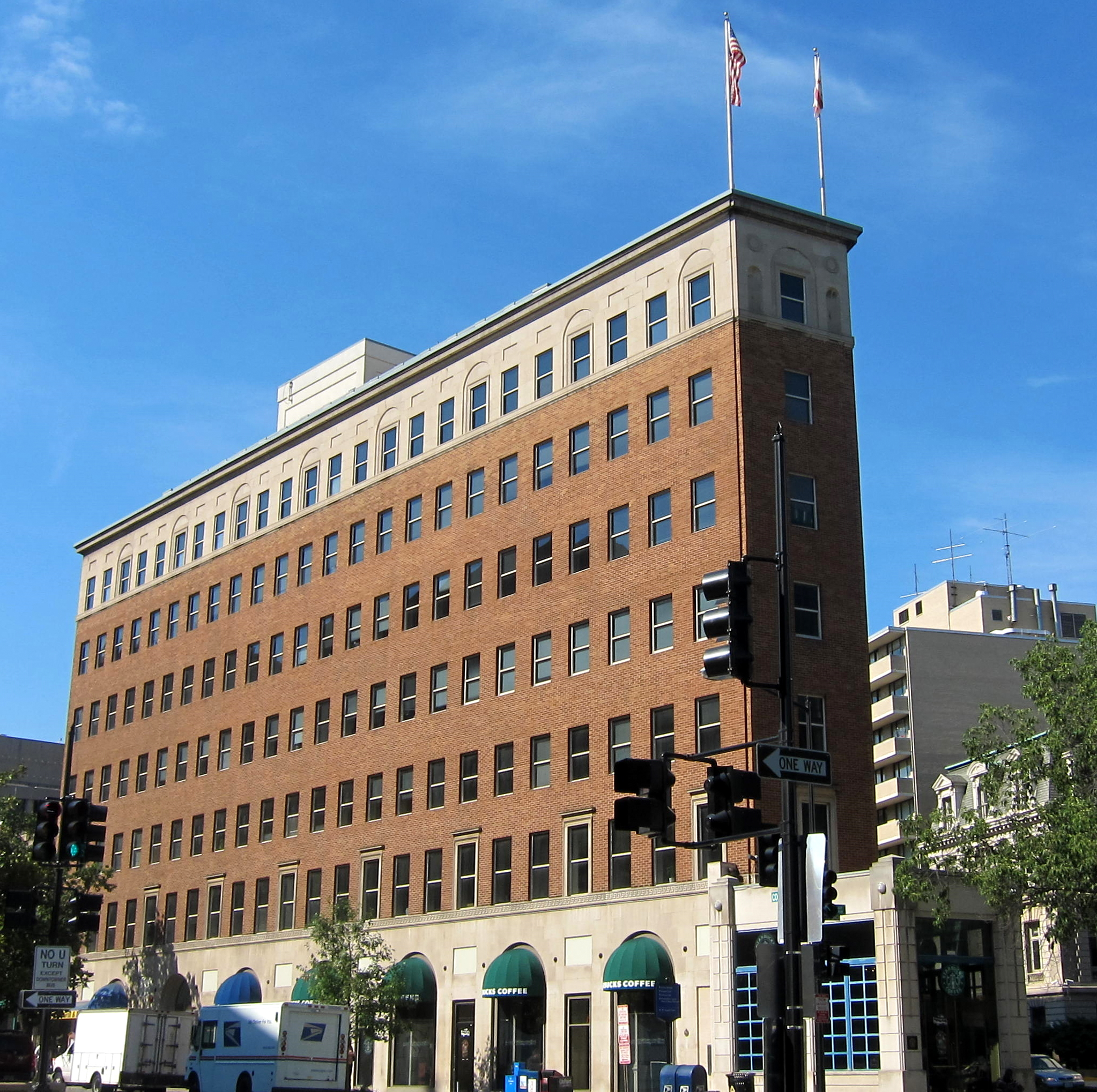 1301 Connecticut Avenue is an office building located in the Dupont Circle neighborhood of Washington, D.C. Tenants include Freedom House, Luna Grill & Diner, and Starbucks.